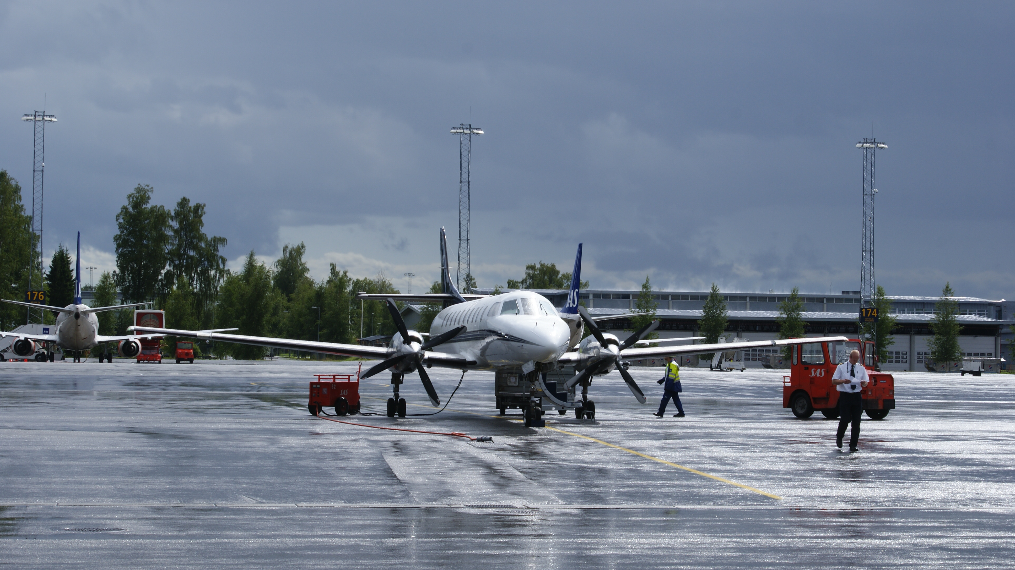 Fairchild SA-227AC Metro III of Air Norway at Oslo Airport, Norway.